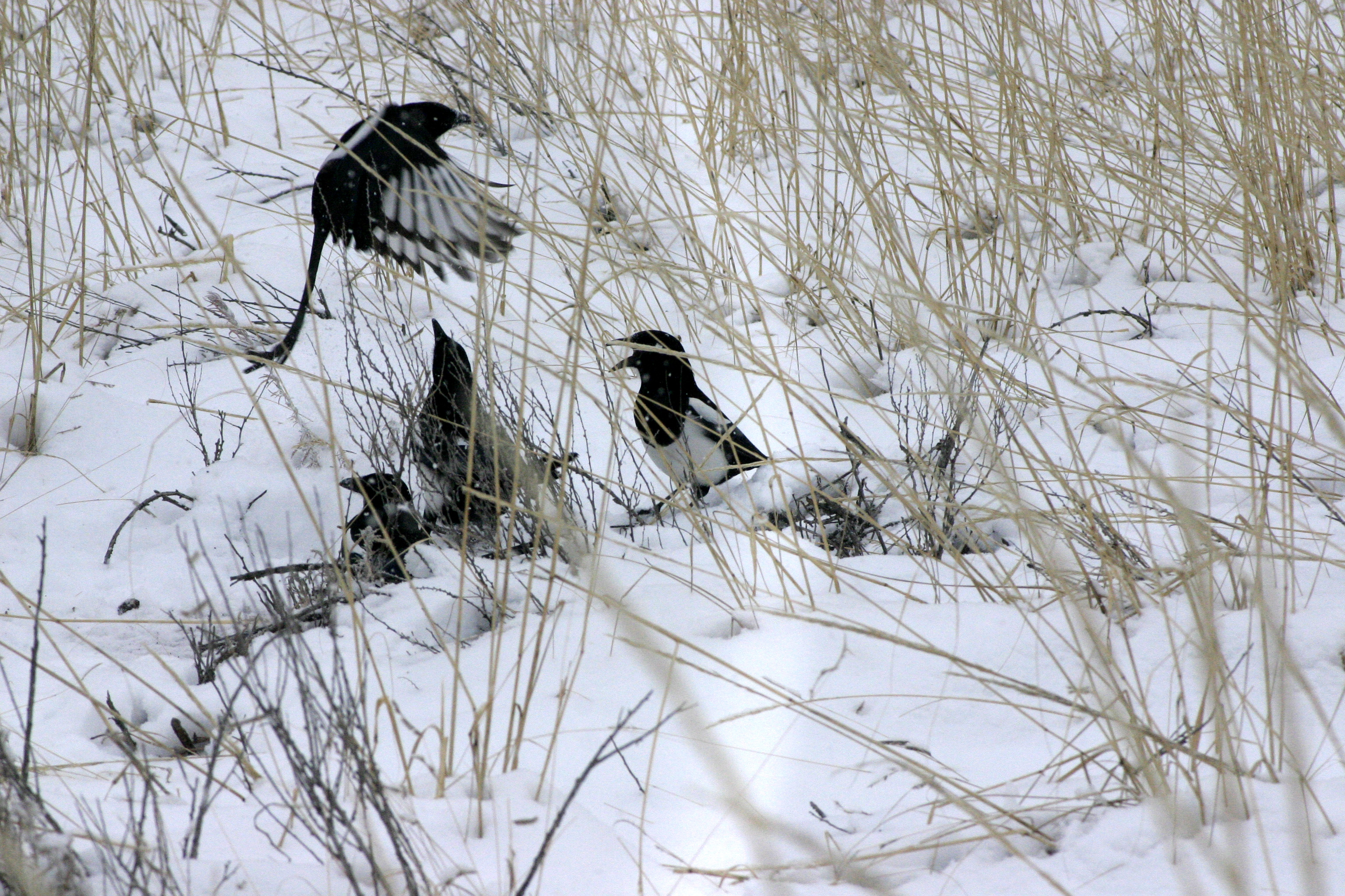 A gathering of Black-billed Magpies (Pica hudsonia) in the Garden of the Gods. Colorado Springs, United States.